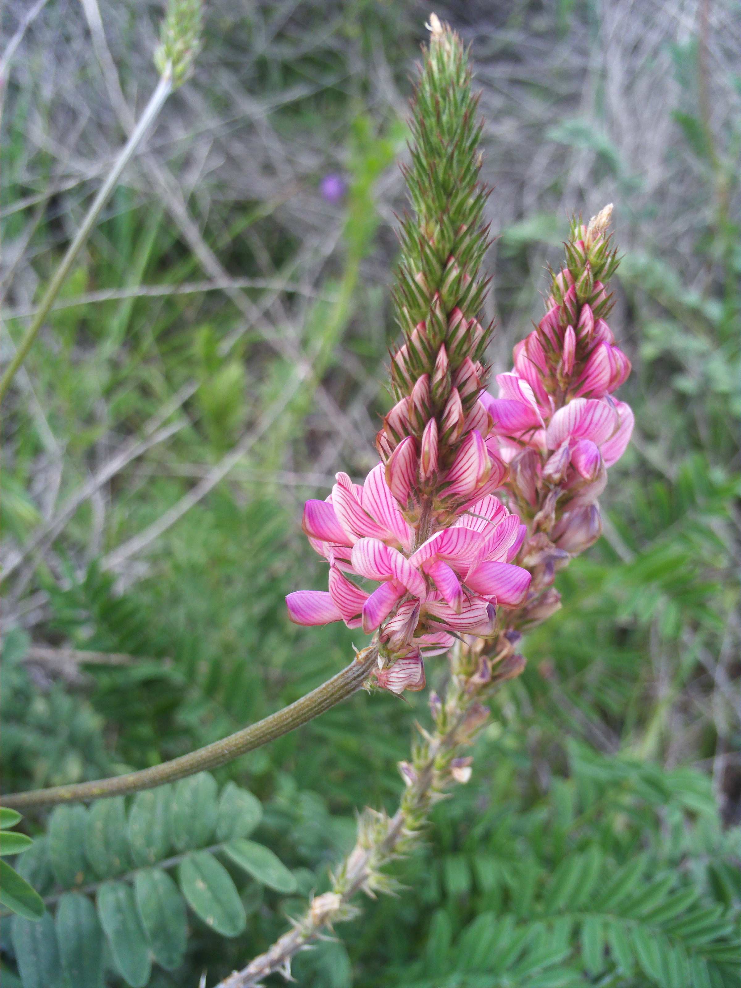 Onobrychis viciifolia inflorescence, Campo de Calatrava, Spain